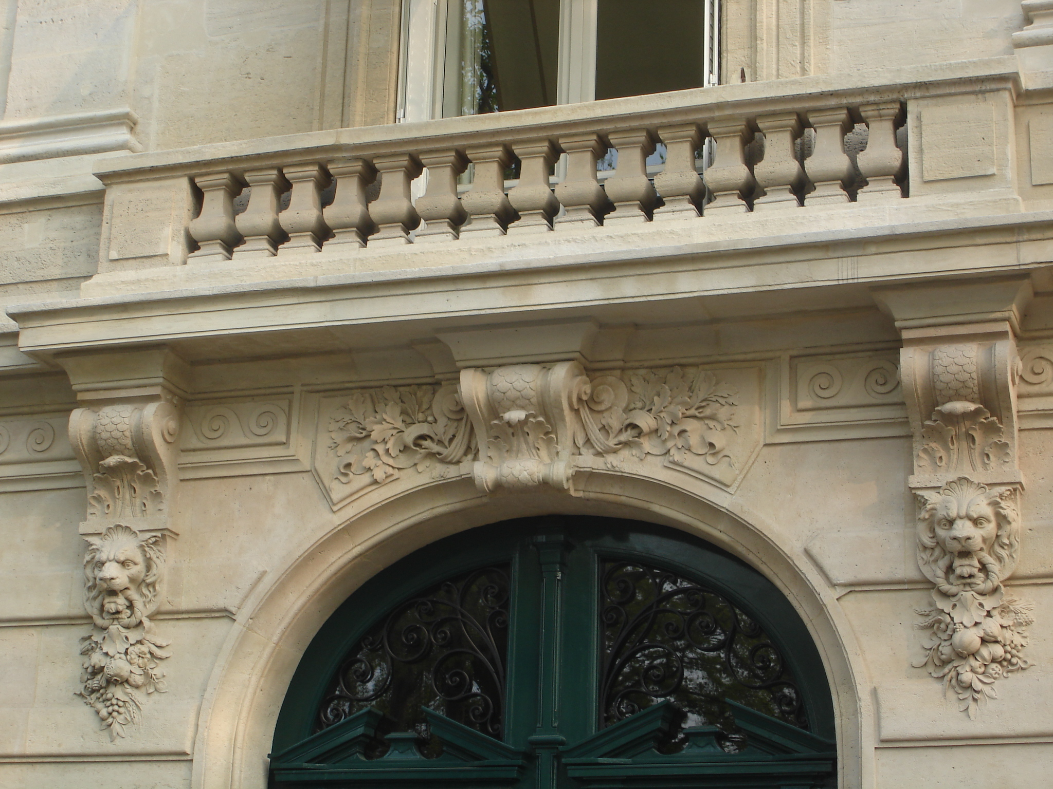 66 boulevard de Courcelles, Paris 17. stone balcony with two lion head corbels